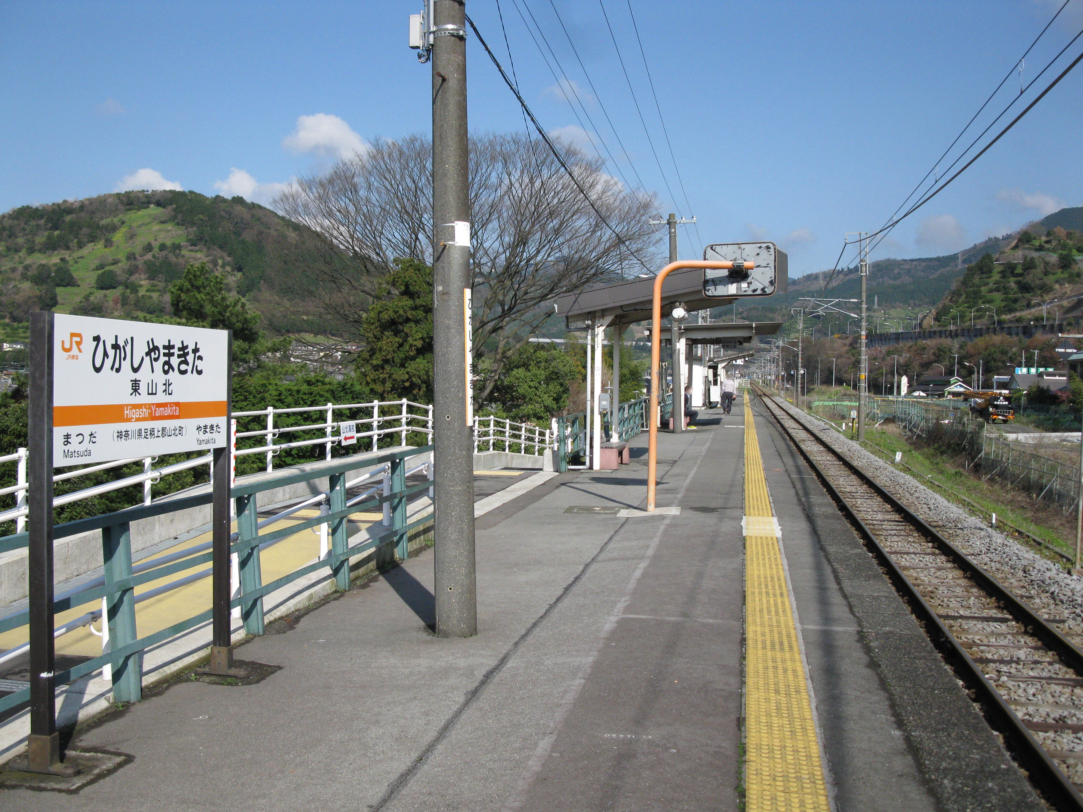 The platform at Higashi-Yamakita Station on the Central Japan Railway(JR Central) Gotemba Line